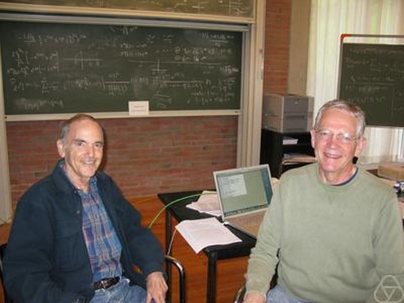 Harold Widom (left), Craig Tracy, Oberwolfach 2009